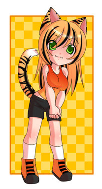 a Kemonomimi tigergirl